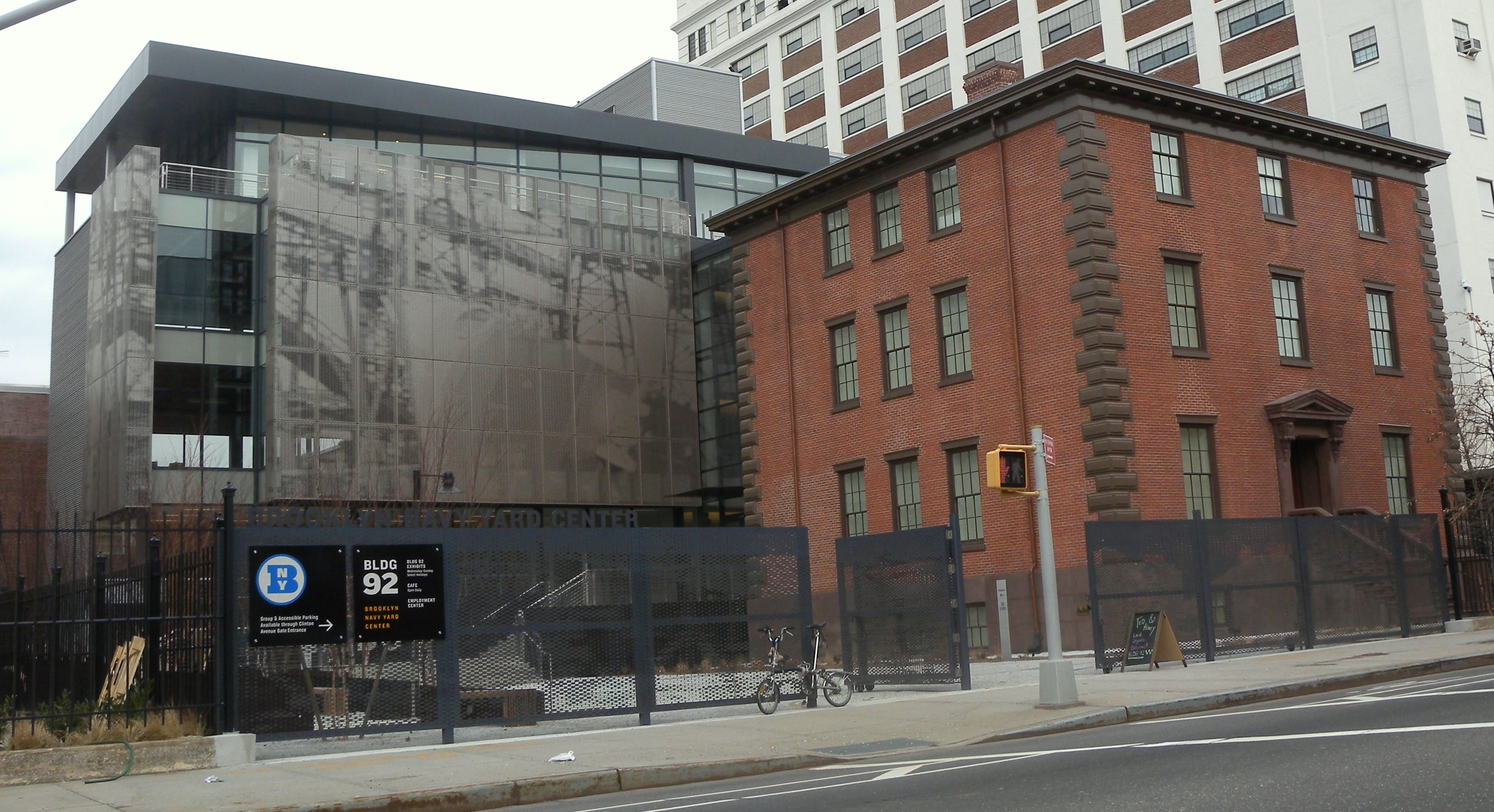 Looking northeast across Flushing Avenue at Building 92 and brick neighbor on a cloudy afternoon.